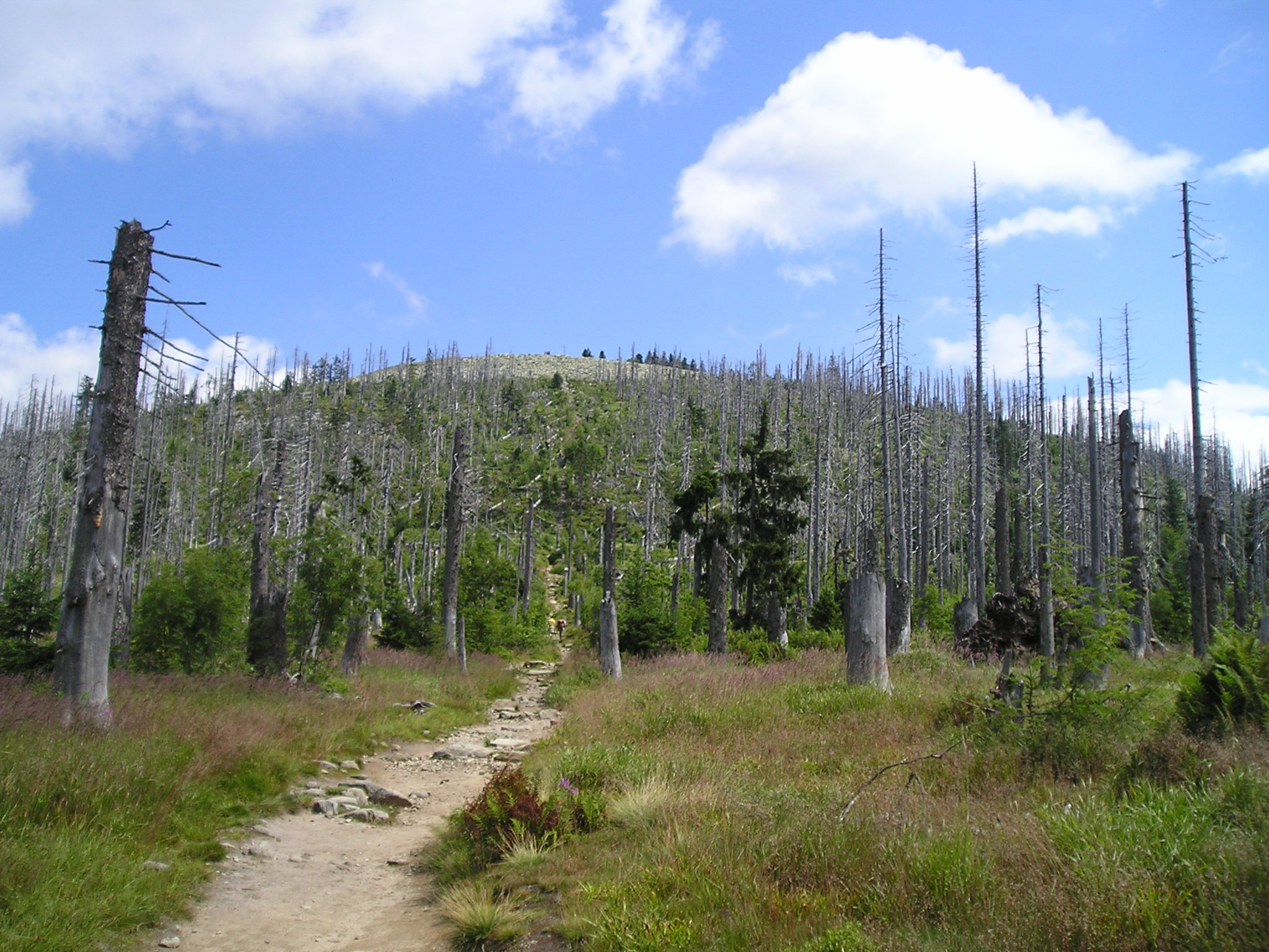 Lusen mountain